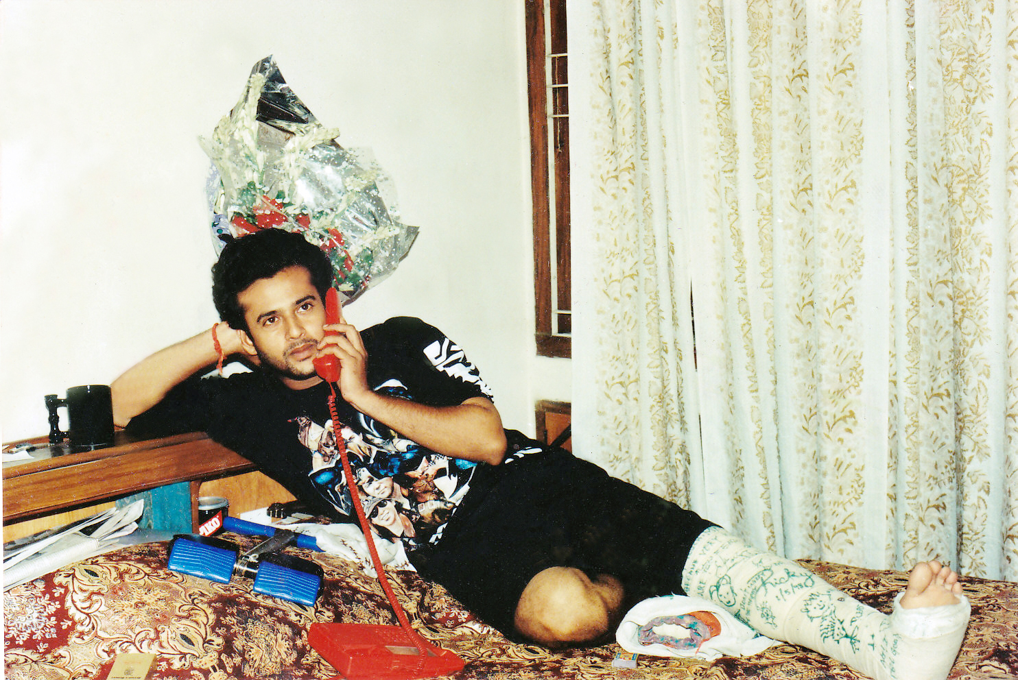 Injured Riaz at his home in 2001